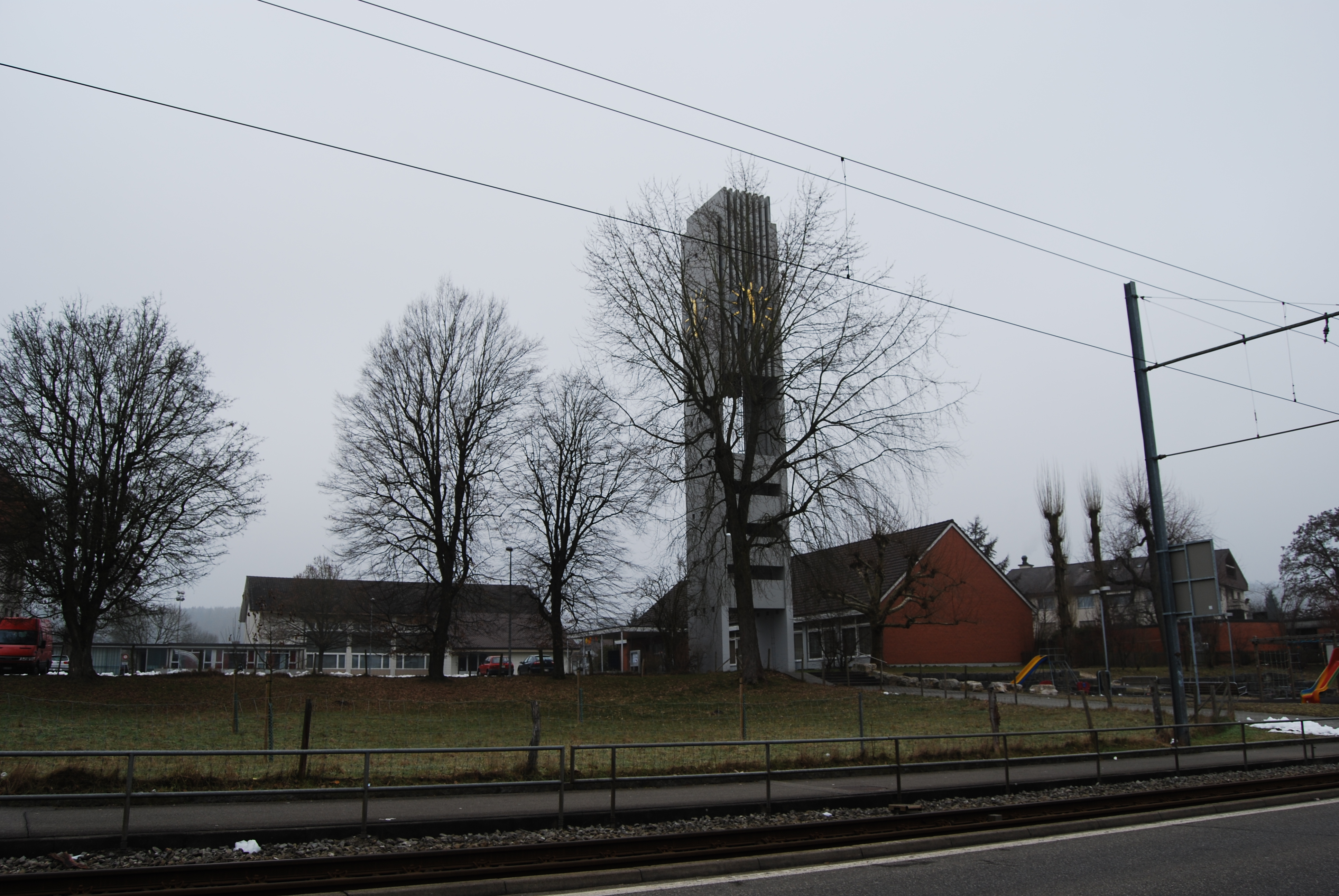 Church of Unterentfelden, canton of Aargau, Switzerland